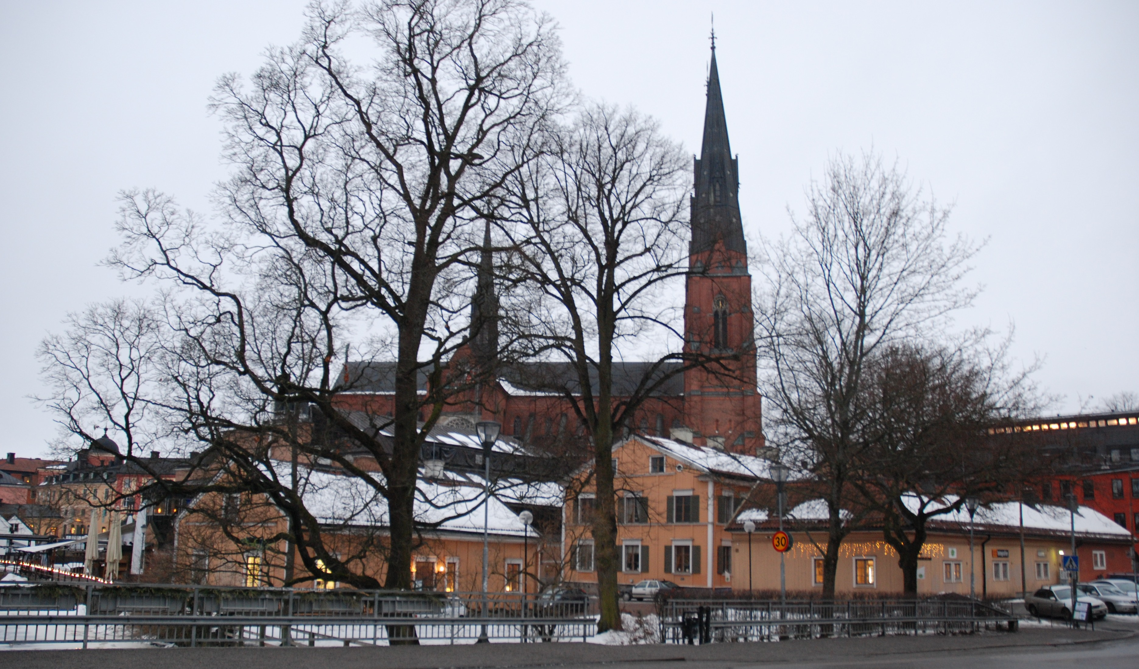 Valdemar Langlets plats (Valdemar Langlet´ square), Uppsala, Sweden